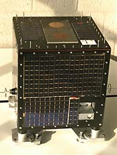 A "satellite built at Germany's Technical University of Berlin [...] intended primarily to test attitude control subsystems and give students practice in the design, construction and operation of a satellite."